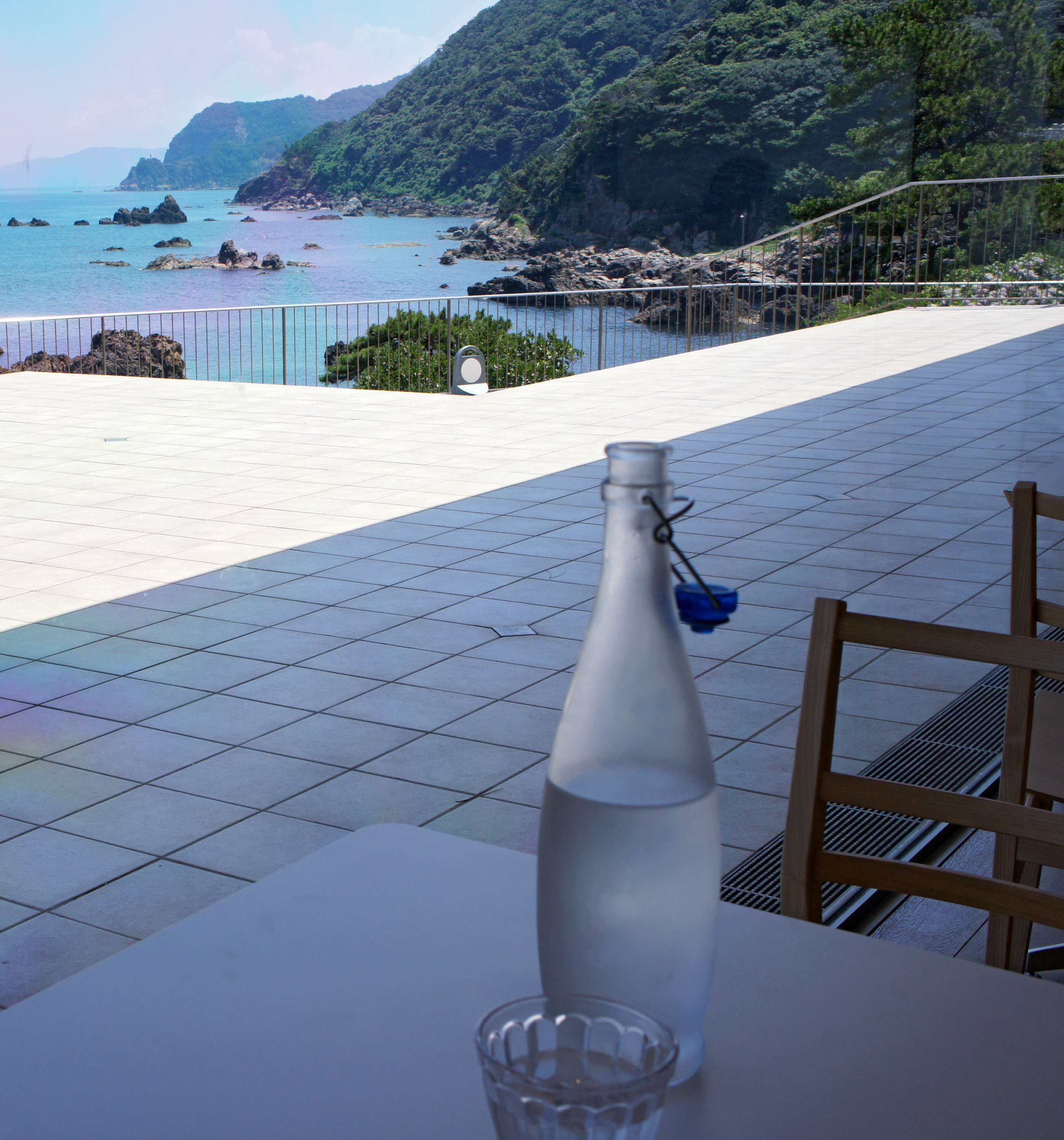 Hiyoriyama Coast in Toyooka, Hyogo prefecture, Japan.